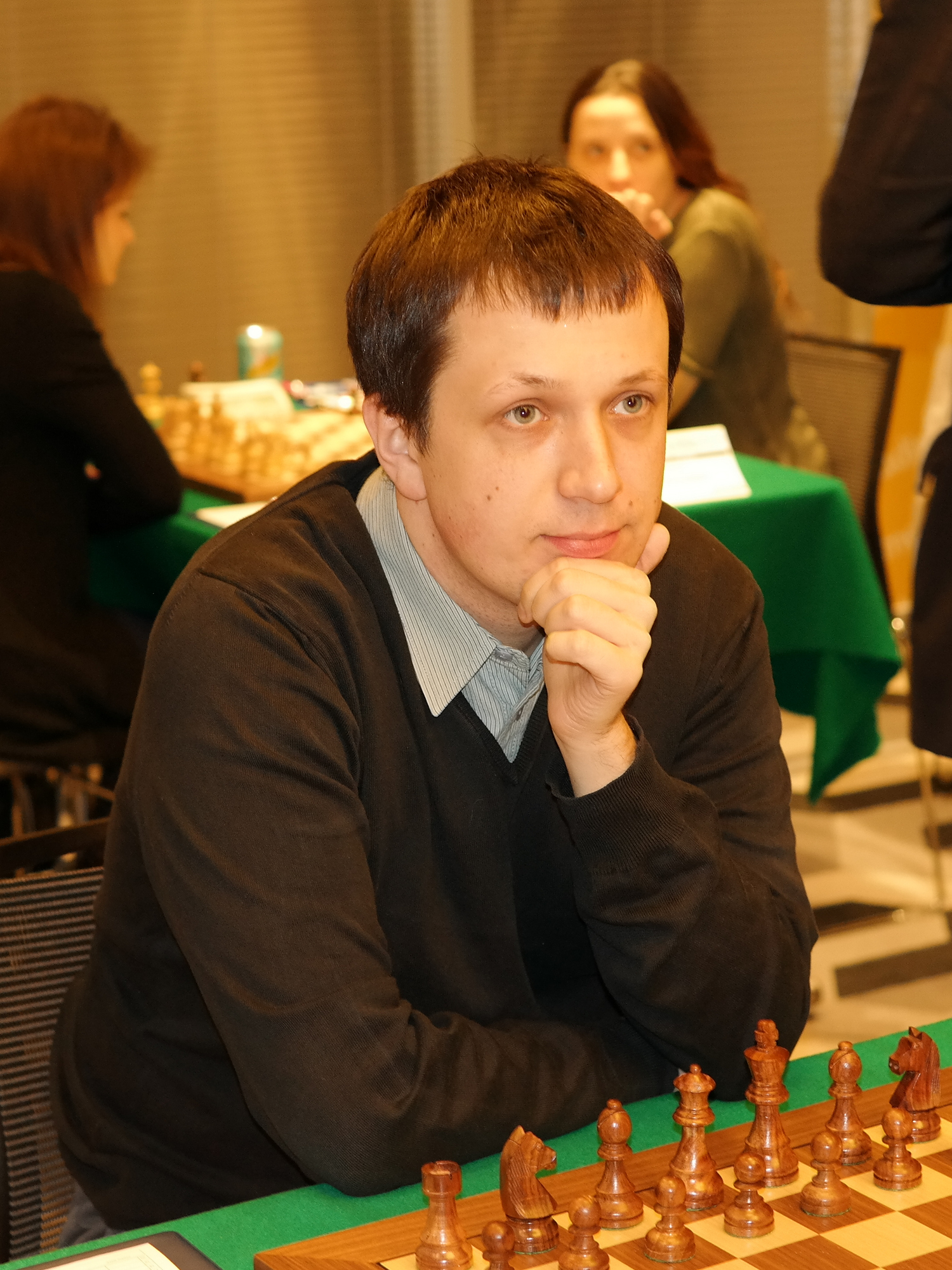 GM Radosław Wojtaszek, Polish Chess Championship, Warsaw 2014